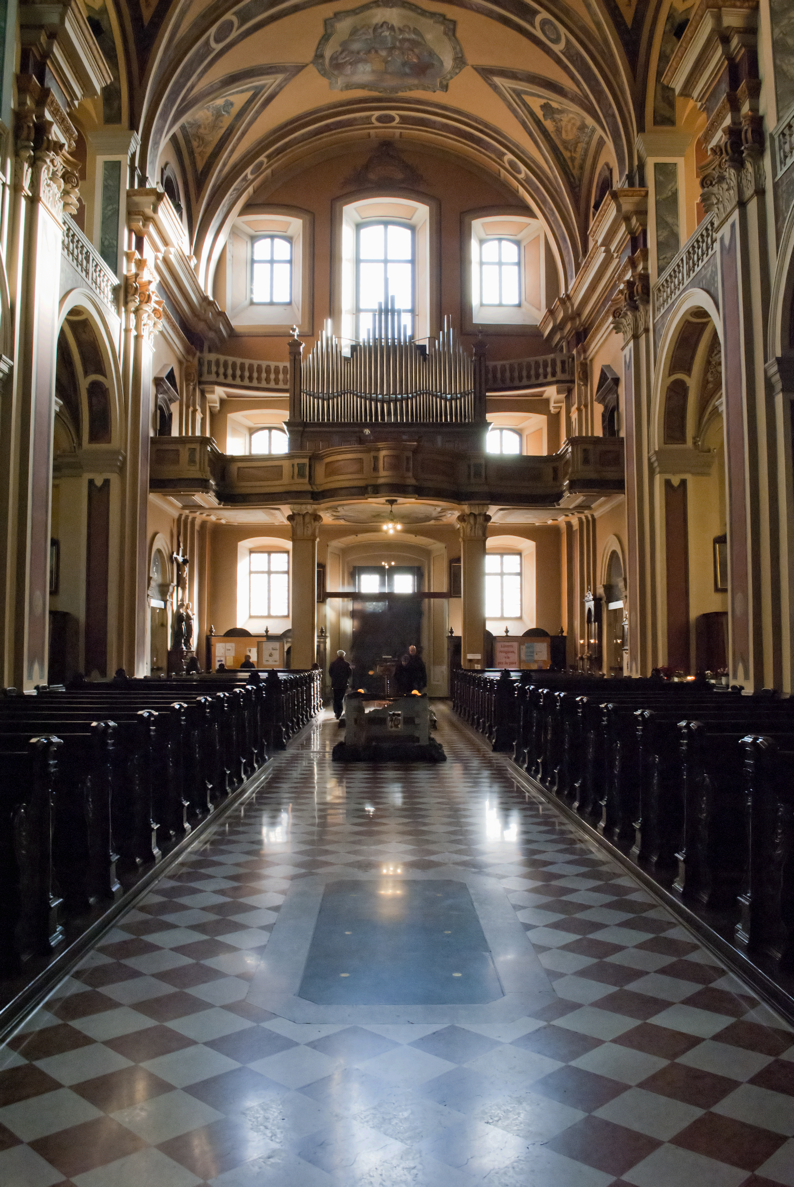 Church of Sant Ignatius in Gorizia, Italy; view of the interior.